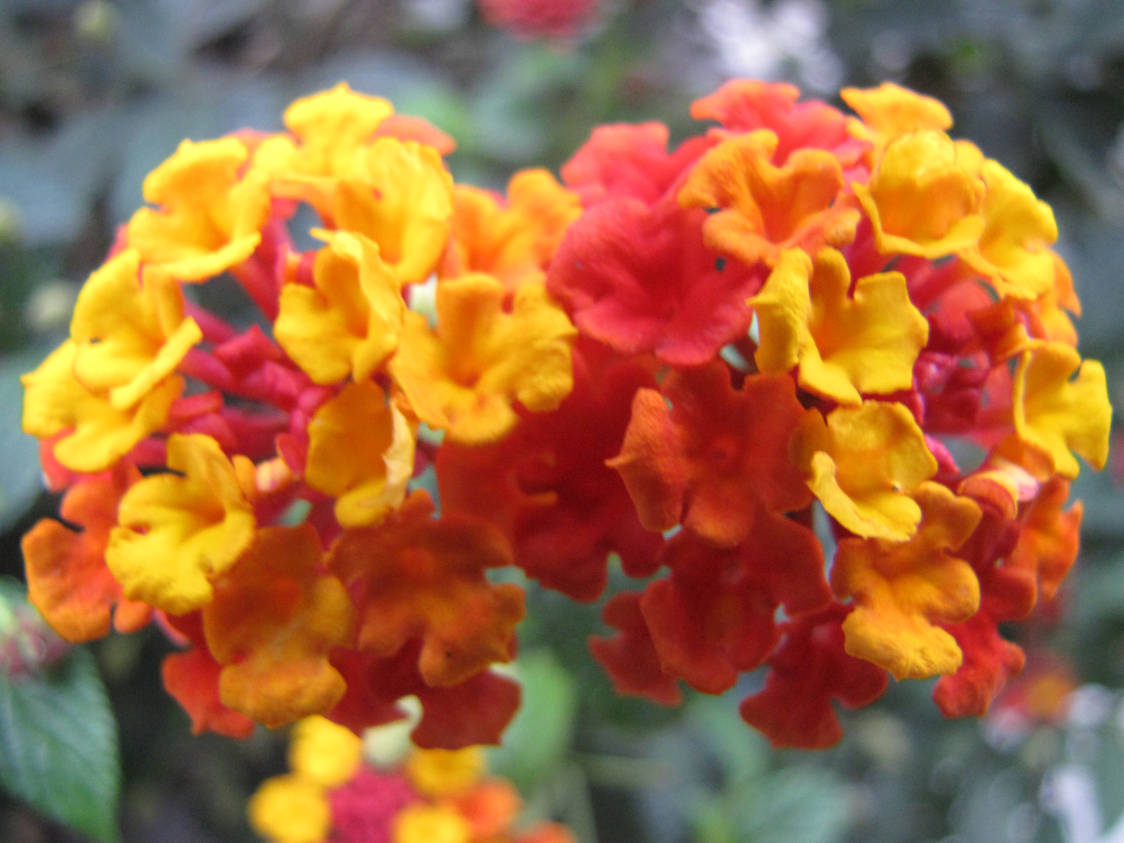 Lantana camara, yellow-red variety.